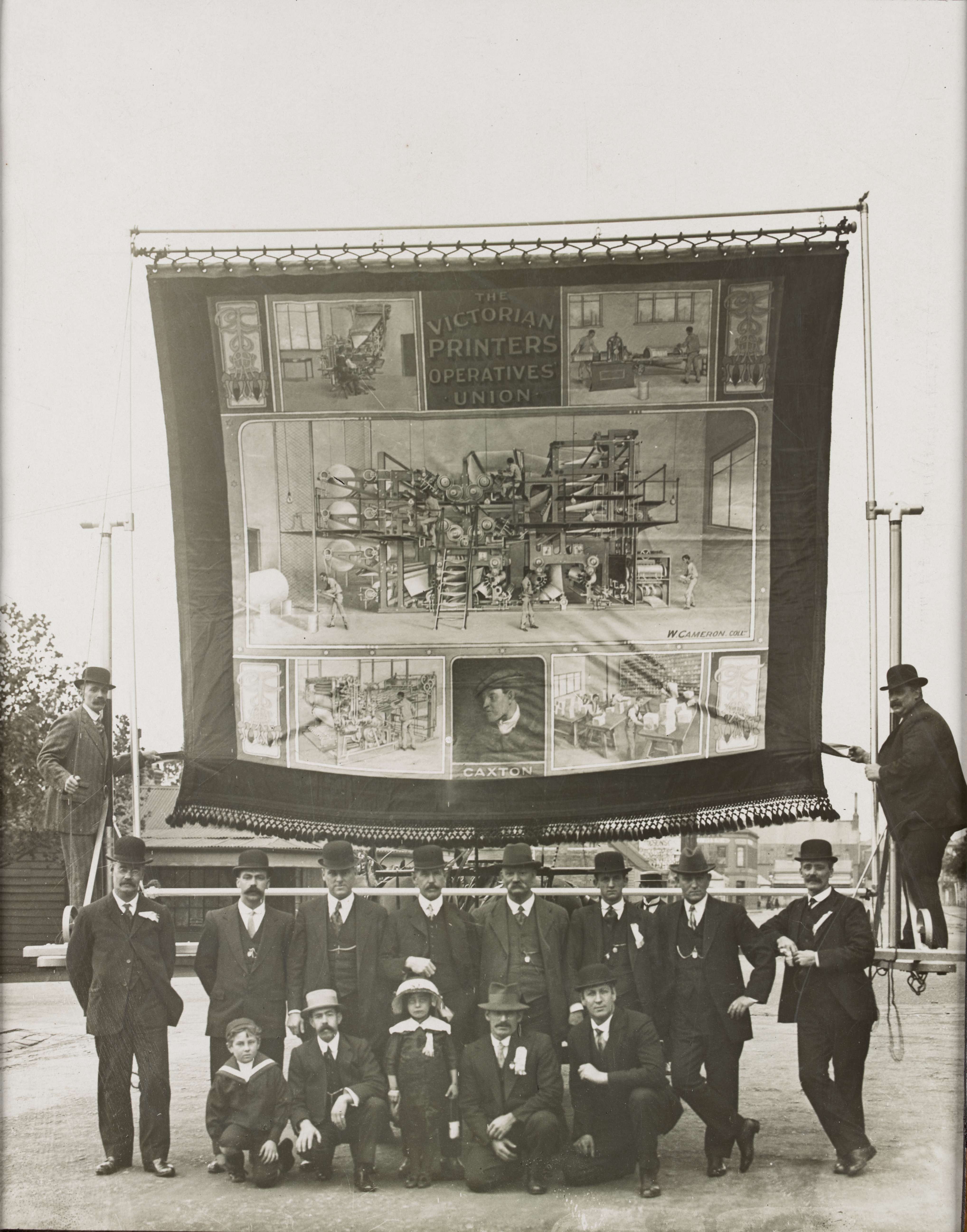 The image is a photograph of members of the Victorian Printers Operative Union, a defunct Australian trade union, holding a banner